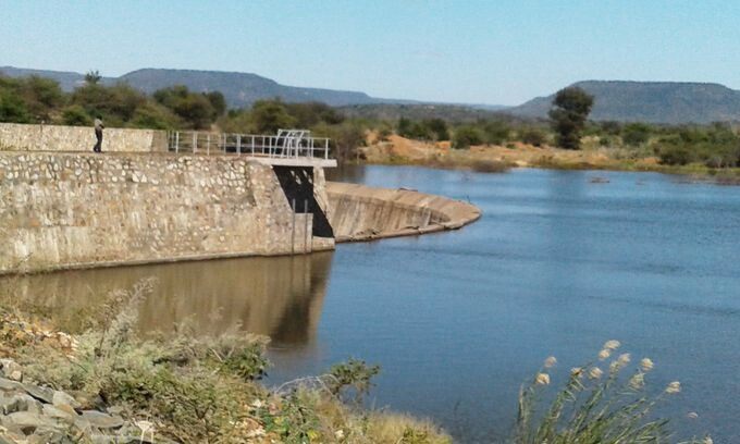 Mutange Dam, Dam Wall view